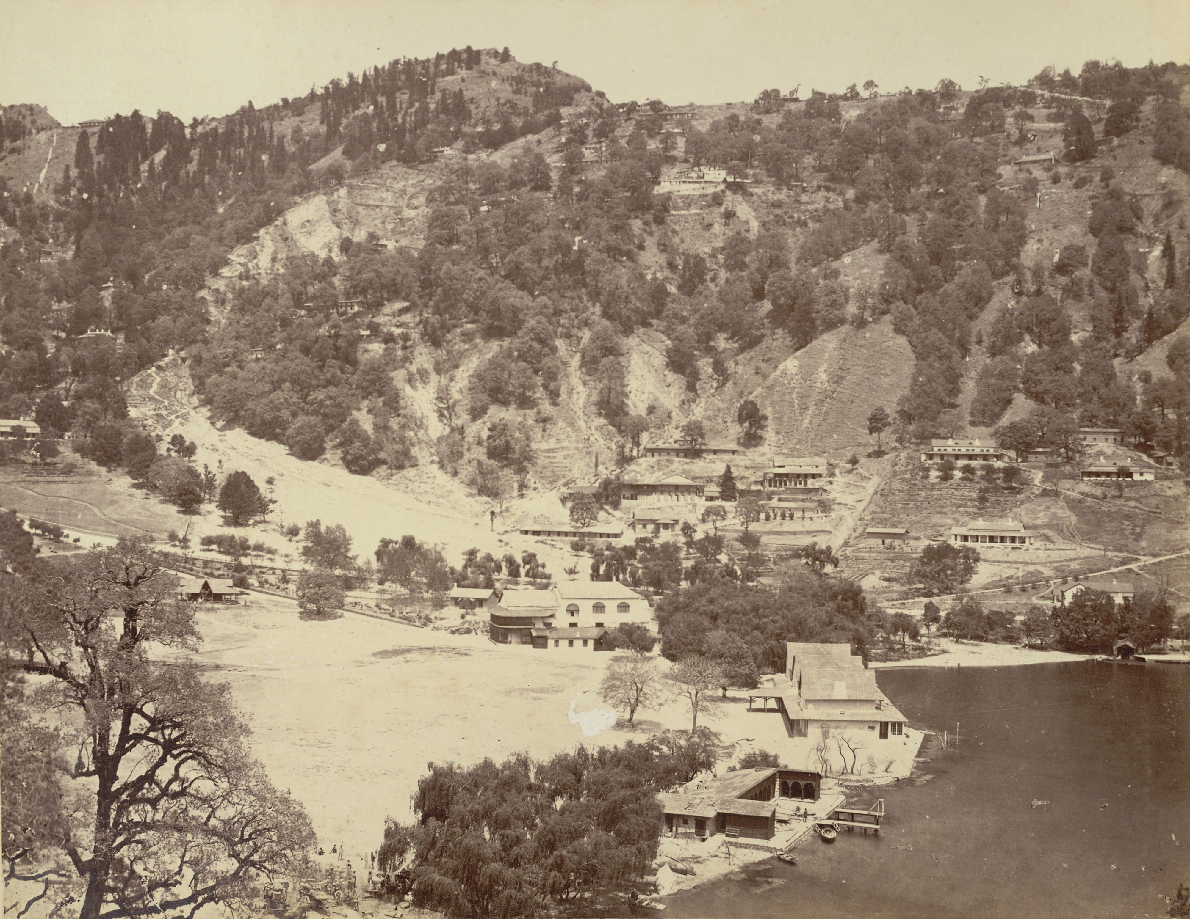 This photograph was taken in 1875 and the photographer died over a 100 years ago. "General view of the north end of Naini Tal." 1875. Macnabb Collection (Col James Henry Erskine Reid): Album of views of 'Naini Tal.' Oriental and India Office Collection, British Library.